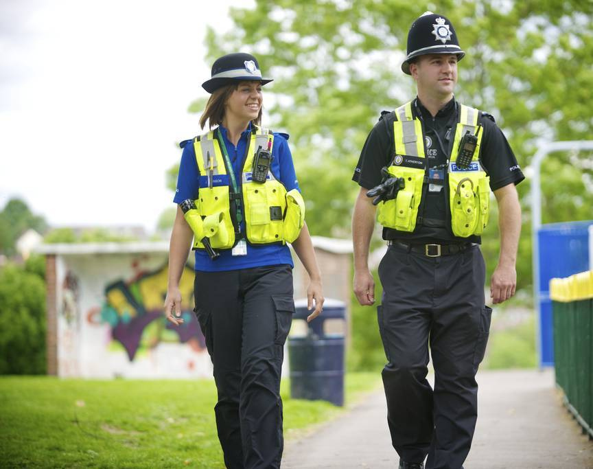 This photograph shows officers on foot patrol. Officers are patrolling across the force to reduce both crime and anti-social behaviour throughout the summer months. Officers are also working with young people and organisations to provide positive and fully supervised activities.